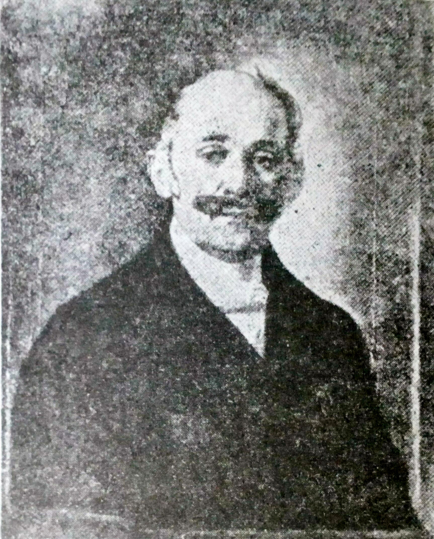 A portrait of Jovan Pantelić (1812-1888), professor and principal of the Karlovci Gymnasium. Taken from the book Istorija Karlovačke gimnazije (1991) by Kosta Petrović. Srpski (latinica): Portret Jovana Pantelića (1812-1888), profesora i direktora Karlovačke gimnazije. Preuzeto iz knjige Istorija Karlovačke gimnazije (1991) Koste Petrovića.